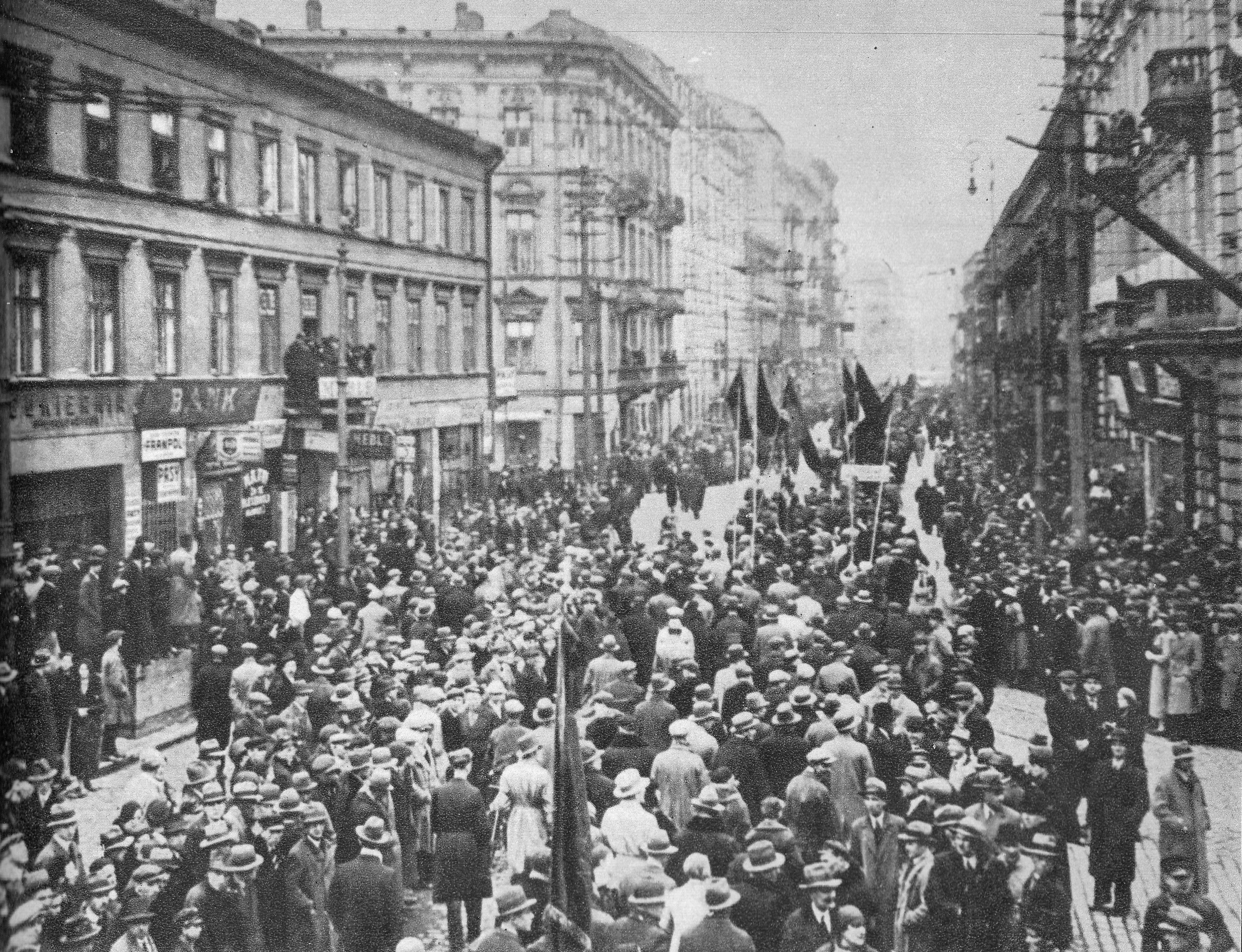 Graniczna Street in Warsaw